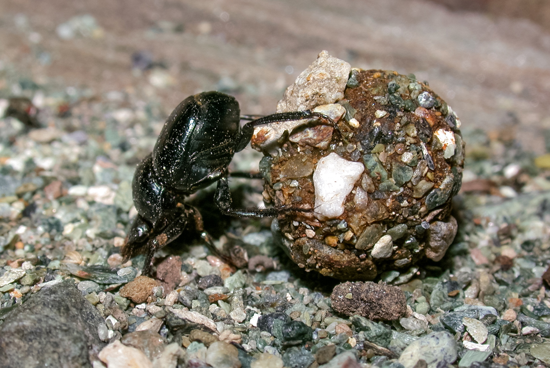 A dung beetle rolling a ball of dung. Guatemala.